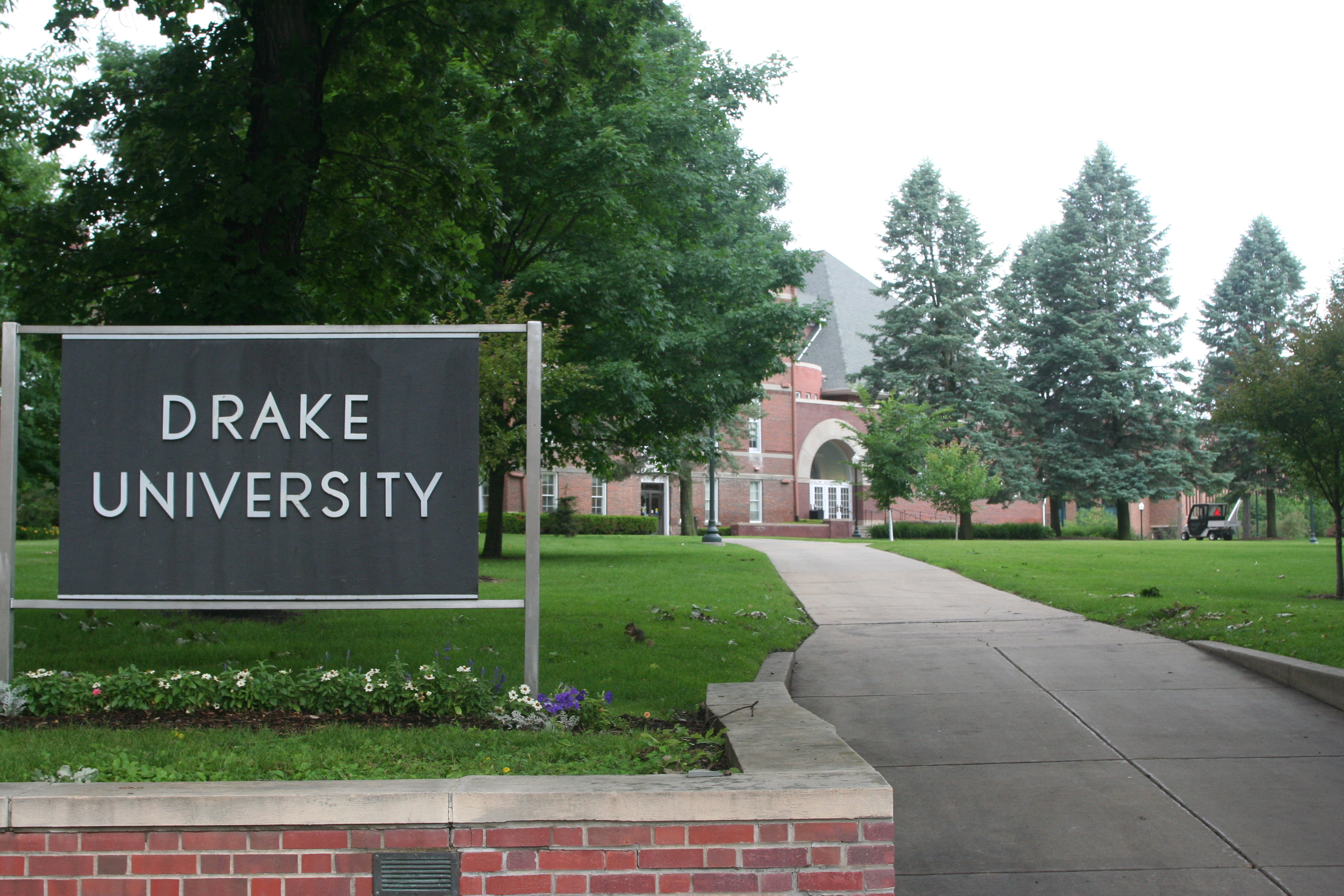 Drake University at Des Moines, Iowa, United States.